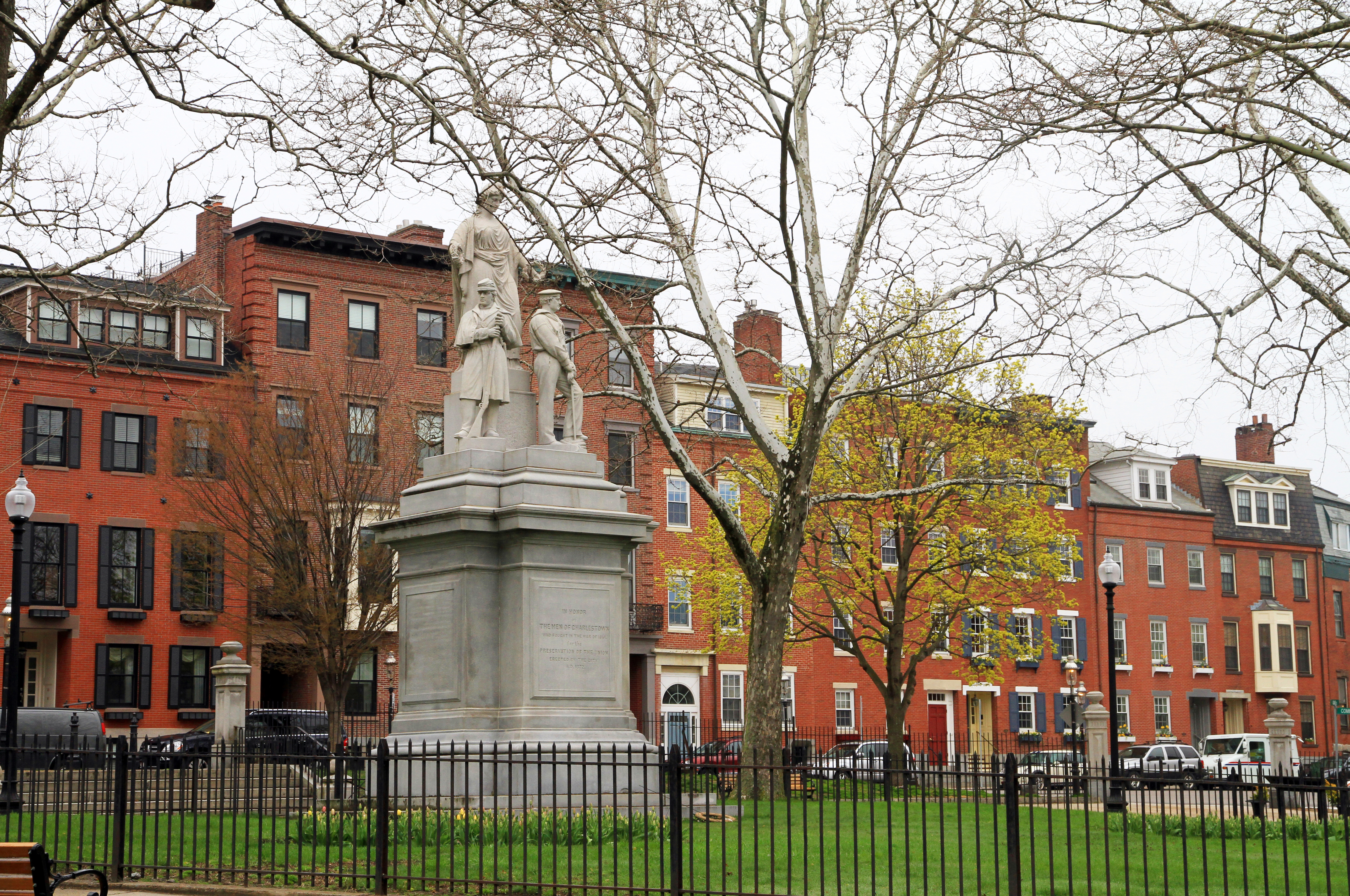 Soldiers Monument